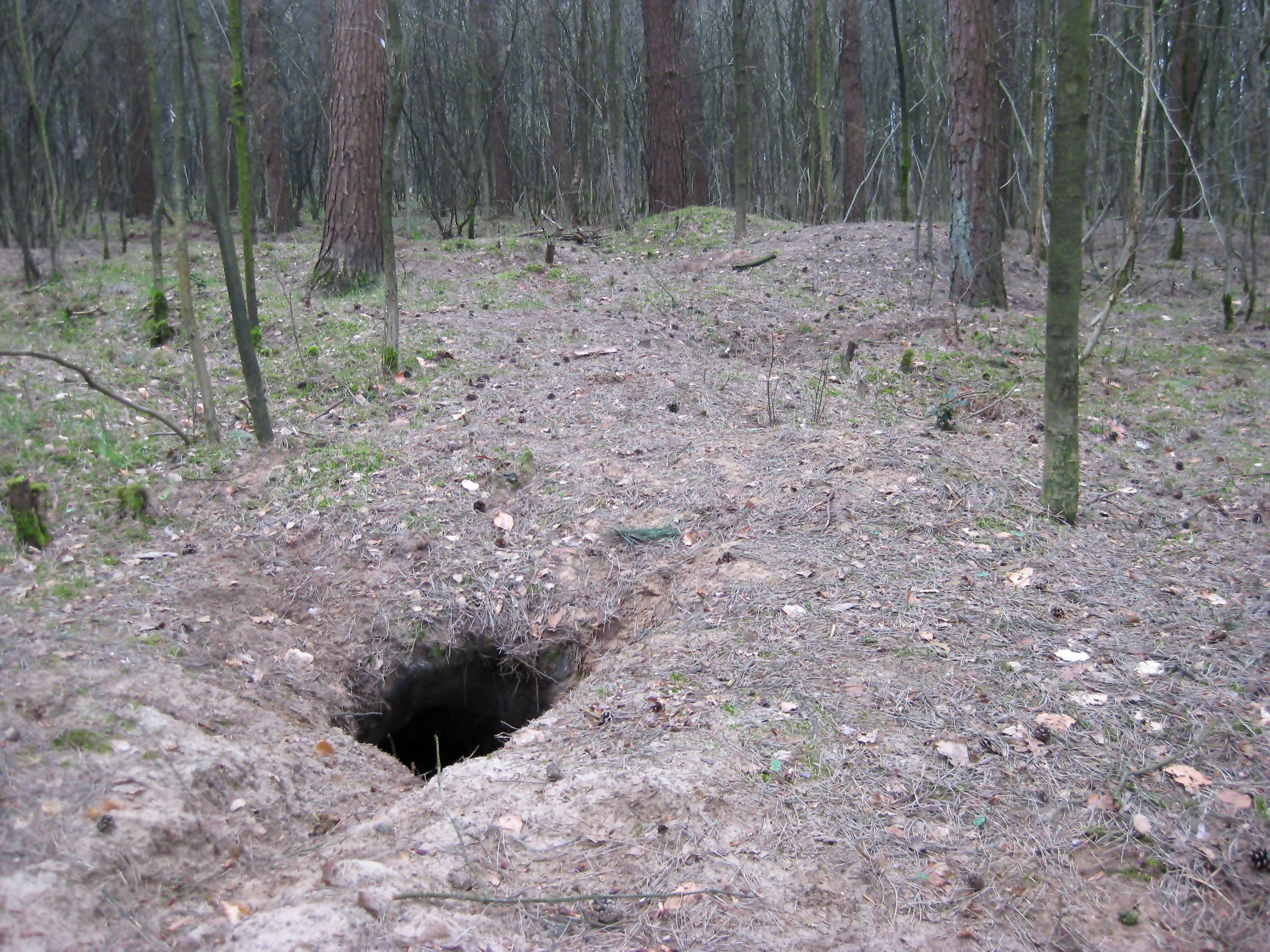 Badger's den in Steinhagen (Westfalen)-Brockhagen